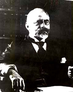 German chemist Hans von Pechmann (1850 - 1902)